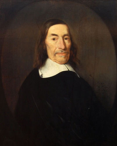 Portrait of Jacob de Witt